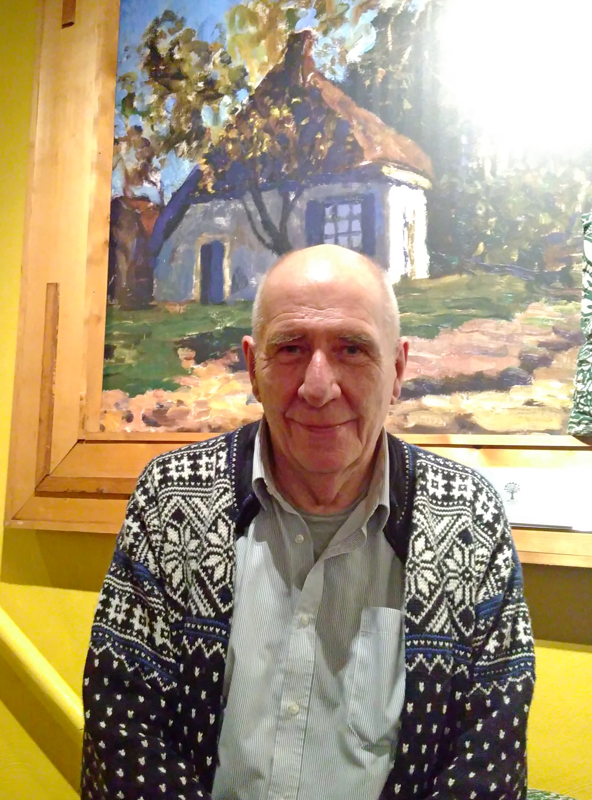 Matthijs Schouten, Dutch ecologist and philosopher. Januar 2018, after a lecture in Renkum(NL)